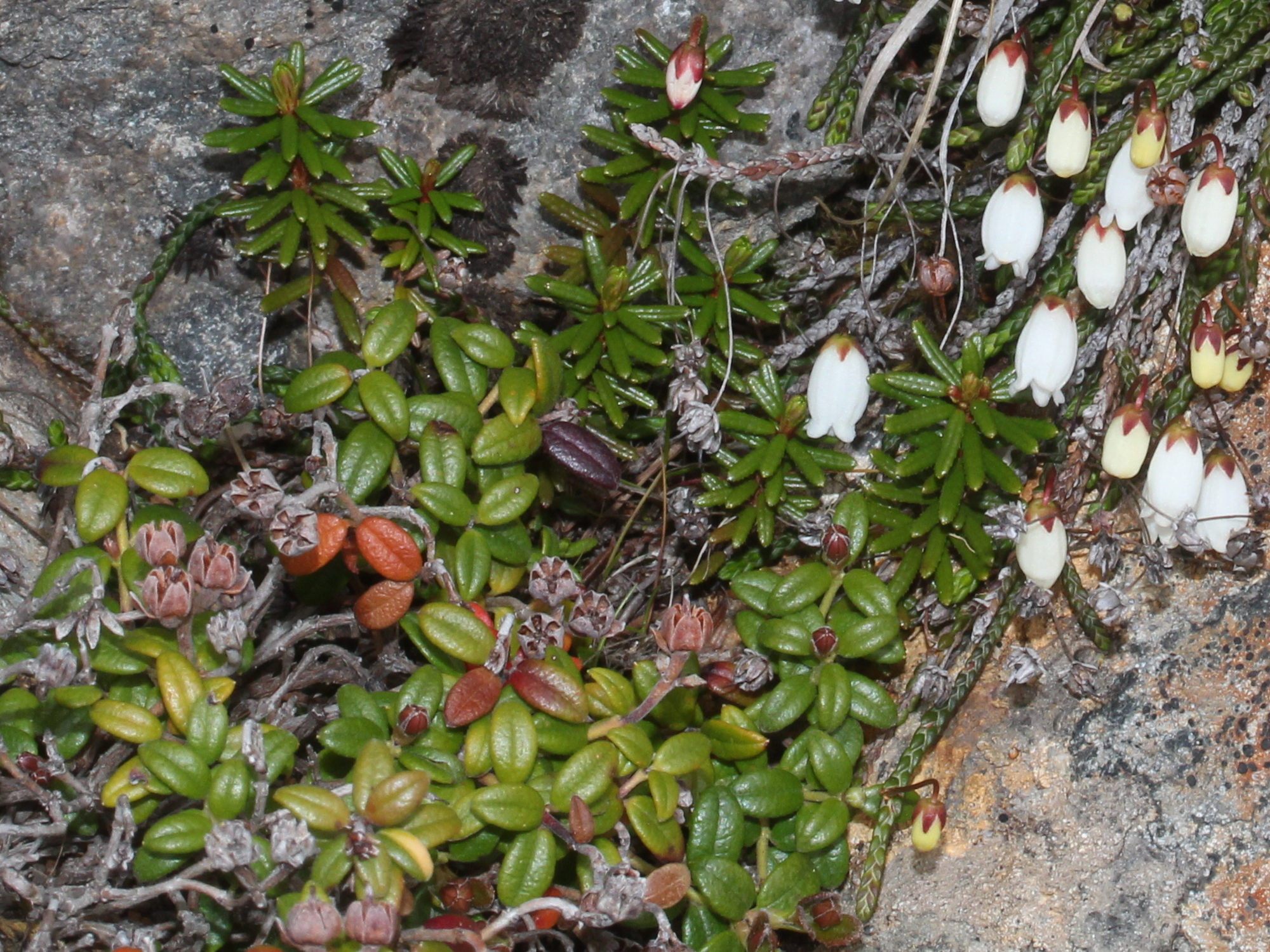 Cassiope lycopodioides, Phyllodoce nipponica and Pieris nana in Mount Haku, Ryohaku Mountains, Hakusan, Ishikawa Prefecture, Japan.